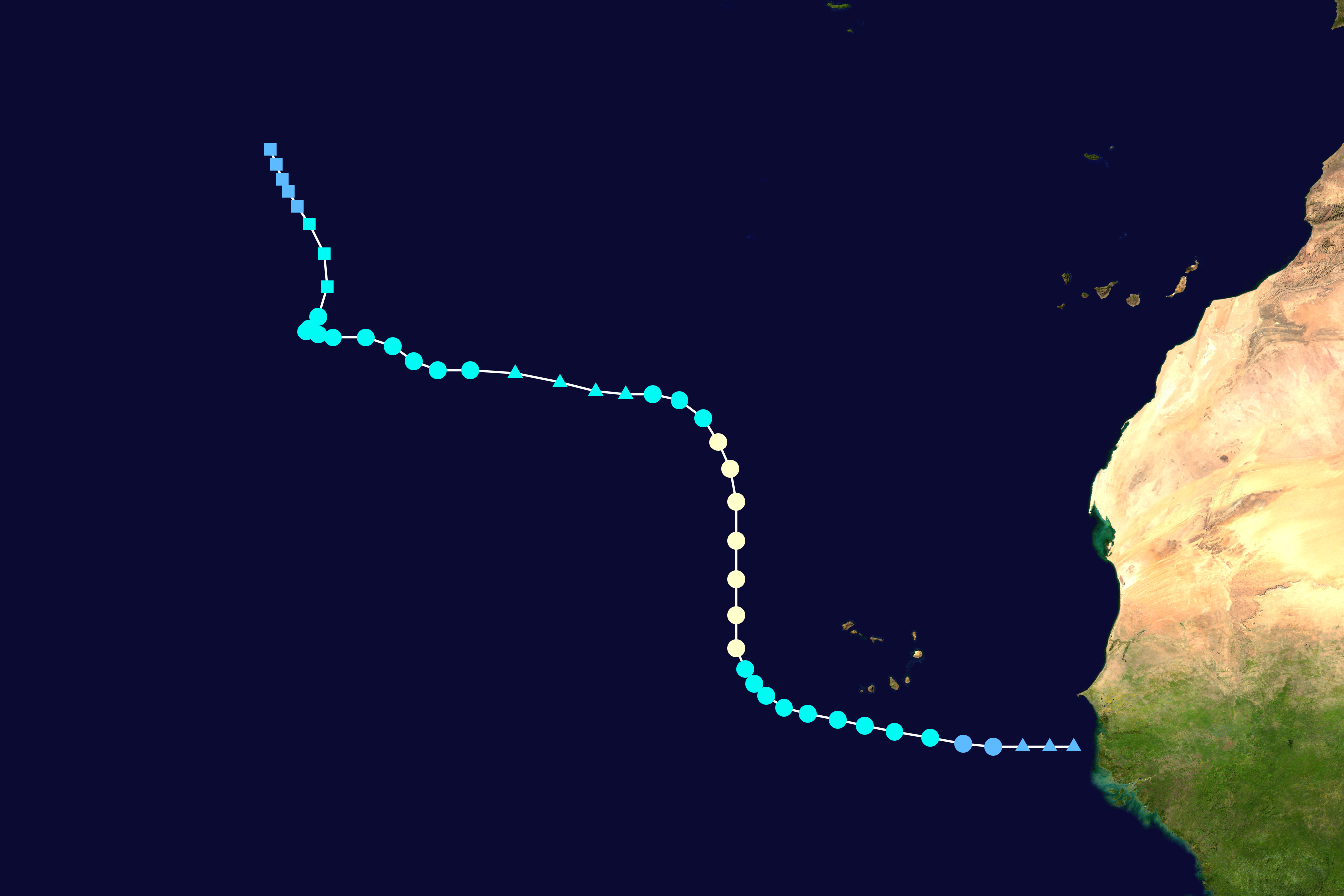 Track map of Hurricane Humberto of the 2013 Atlantic hurricane season. The points show the location of the storm at 6-hour intervals. The colour represents the storm's maximum sustained wind speeds as classified in the Saffir–Simpson scale (see below), and the shape of the data points represent the nature of the storm, according to the legend below. Saffir–Simpson scale Tropical depression≤38 mph≤62 km/h Category 3111–129 mph178–208 km/h Tropical storm39–73 mph63–118 km/h Category 4130–156 mph209–251 km/h Category 174–95 mph119–153 km/h Category 5≥157 mph≥252 km/h Category 296–110 mph154–177 km/h Unknown Storm type Tropical cyclone Subtropical cyclone Extratropical cyclone / Remnant low / Tropical disturbance / Monsoon depression